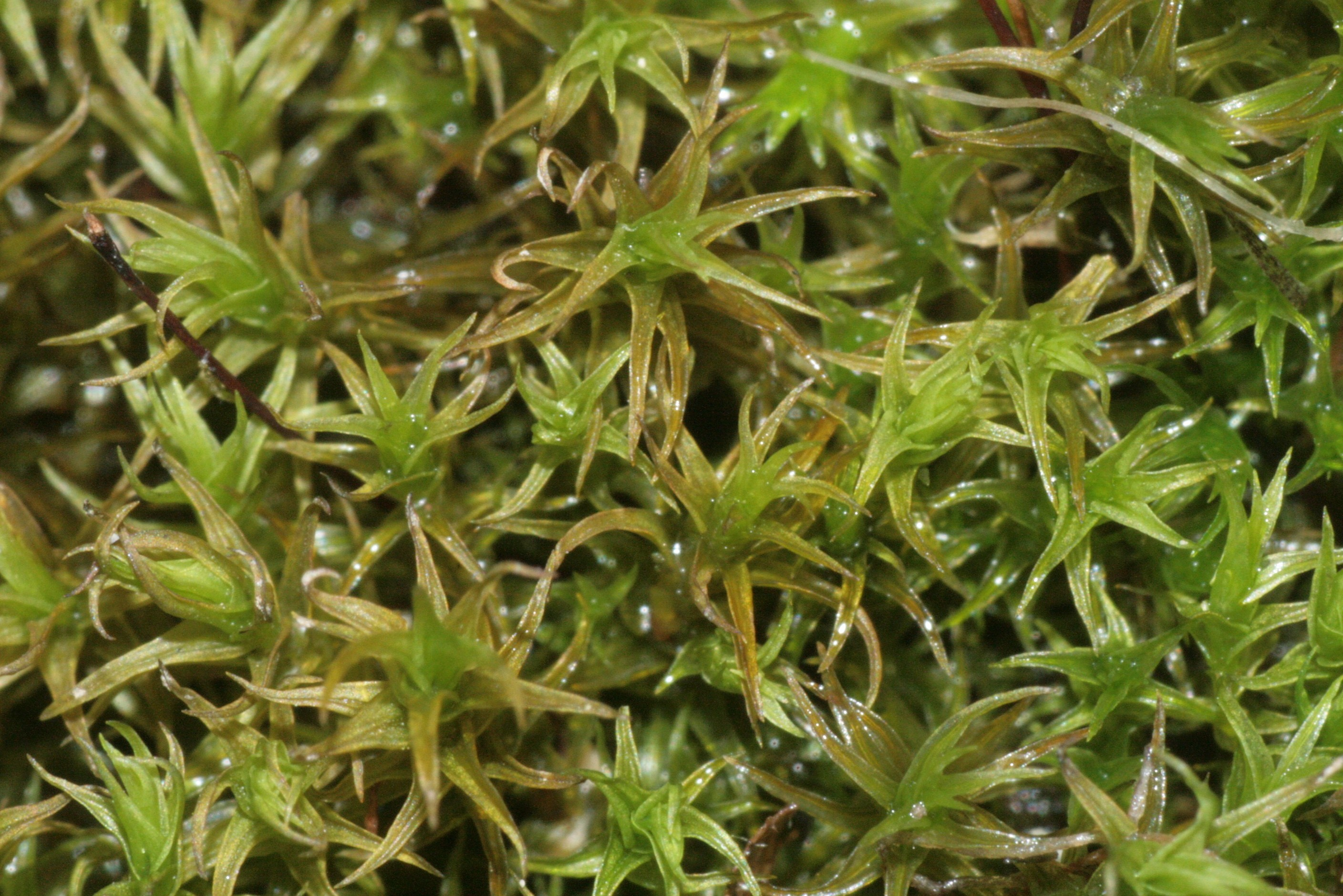 Barbula spadicea